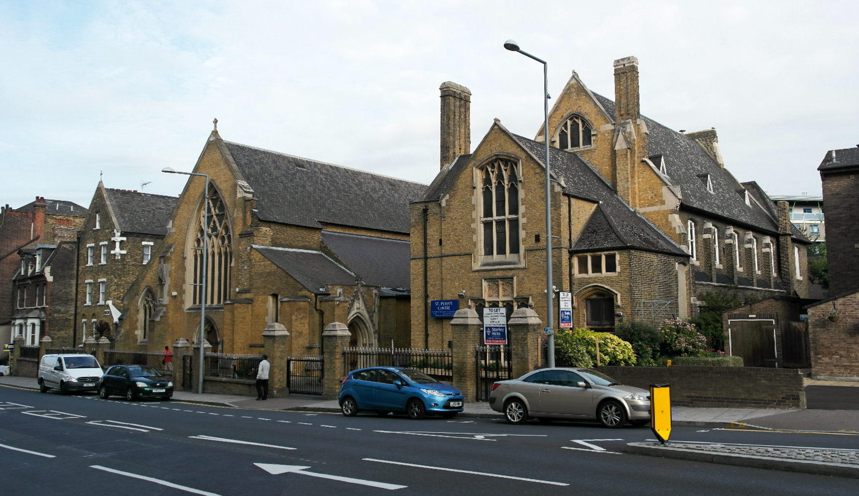 View of Woolwich New Road with the Roman Catholic parish church and school of St Peter the Apostle in Woolwich, Southeast London.